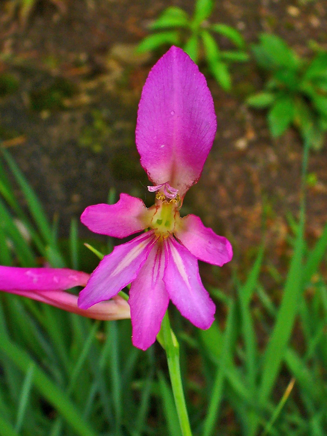 Gladiolus italicus, Iridaceae, Italian Gladiolus, Field Gladiolus, Common Sword-lily, flower; Botanical Garden KIT, Karlsruhe, Germany.